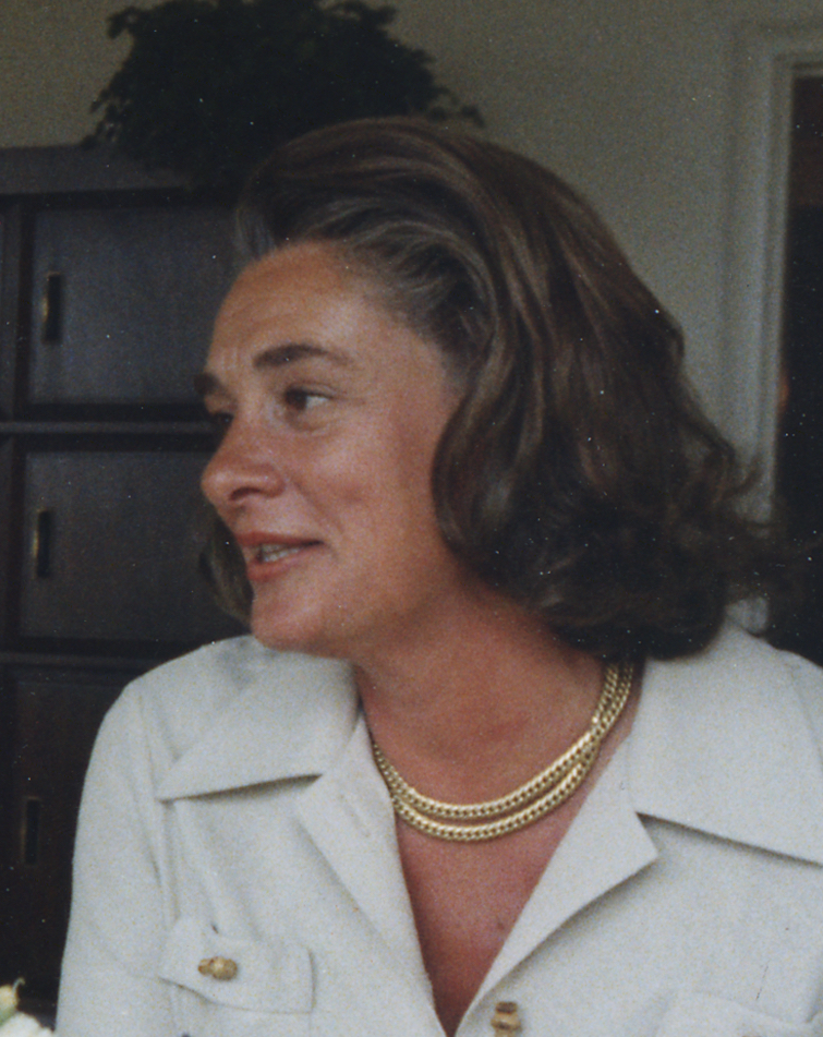 Description: Item from Collection GRF-WHPO: Ford White House Photograph Collection, 12/06/1973 - 01/20/1977 Access Restrictions: Unrestricted Use Restrictions: Unrestricted